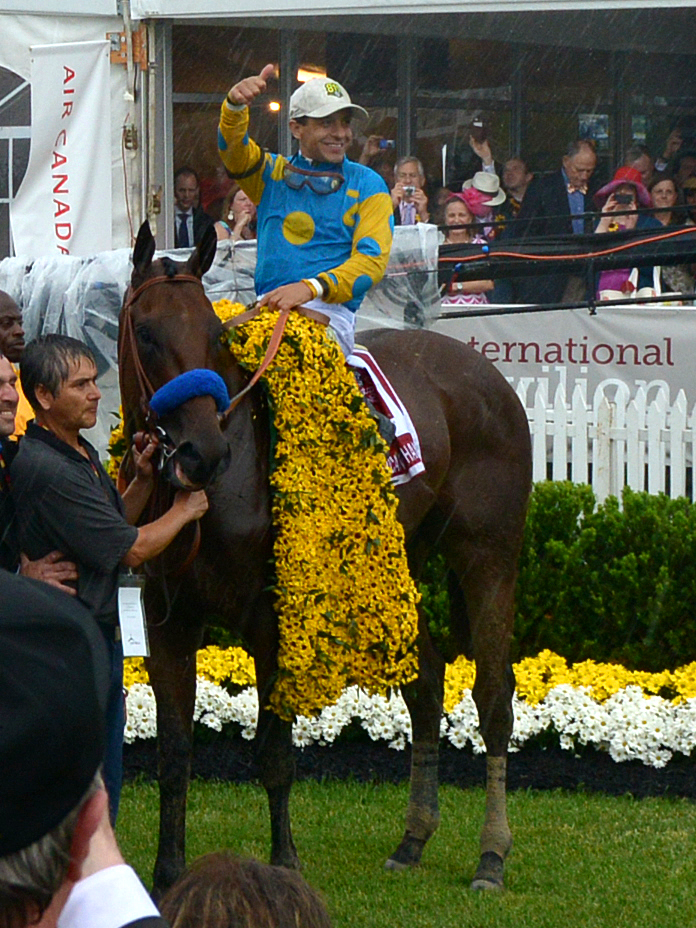 Governor Hogan attends 2015 Preakness Stakes by Tom Nappi at Pimlico, Baltimore, Maryland 2015 Preakness Stakes at Pimlico. A thunderstorm resulted in sloppy track conditions.